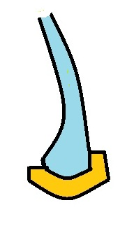 Principle of mounting an glass in a groove of a eyeglass or watch.